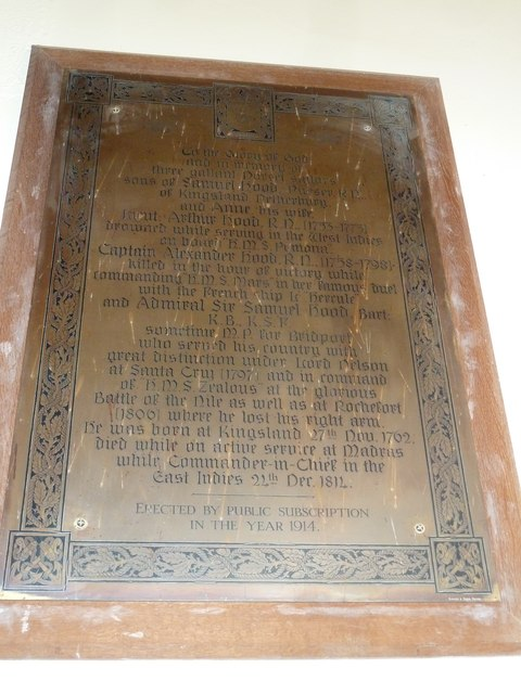 Mural monument to Hood family of naval officers, St Mary's Church, Netherbury, Dorset. Inscribed: "to the glory of God and in memory of three gallant Dorset sailors, sons of Samuel Hood, Purser, R.N., of Kingsland, Netherbury, and Ann his wife. Lieutenant Arthur Hood R. N. (1755 - 1775) drowned while serving in the West Indies on board HMS Pomona. Captain Alexander Hood R.N. (1758-1798) killed in the hour of victory while commanding HMS Mars in her famous duel with the French ship 'Hercule'. And Admiral Sir Samuel Hood, Bart., KB., KSI., sometime M.P. for Bridport, who served his country with great distinction under Lord Nelson at Santa Cruz in 1797, and in command of HMS Zealous at the Battle of the Nile as well as at Rochefort 1806 where he lost his right arm. Born at Kingsland 27 Nov 1762. Died at Madras while Commander-in-Chief, East Indies, 24 Dec 1814." (transcription from The HOOD Peerage Pedigree Database [1])